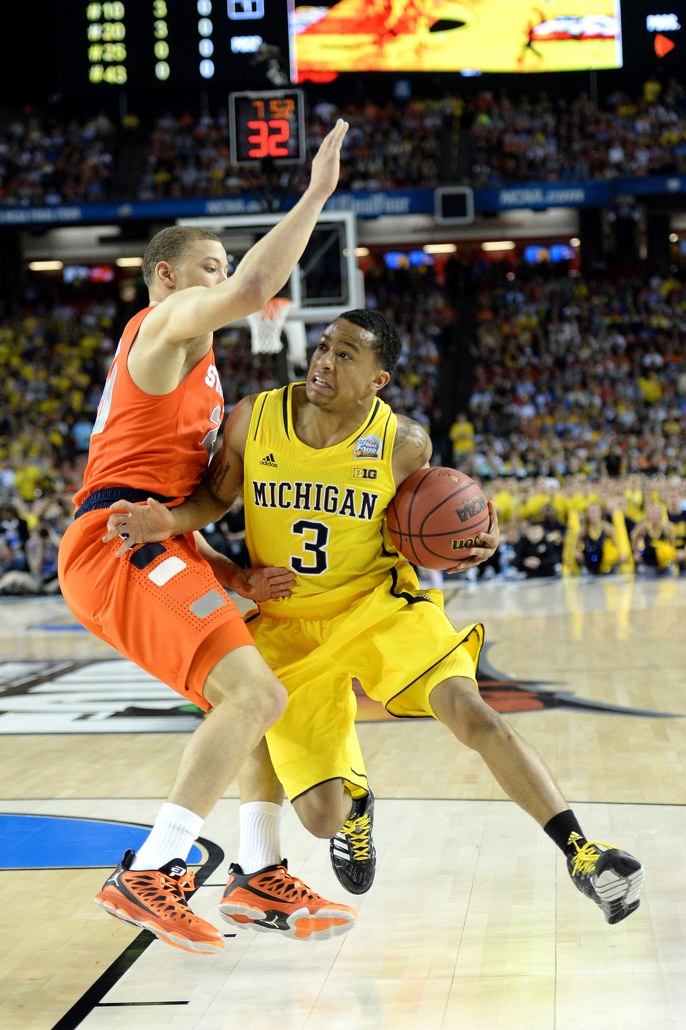 Trey Burke of Michigan at the 2013 NCAA Tournament Final Four (Adam Glanzman/Daily)